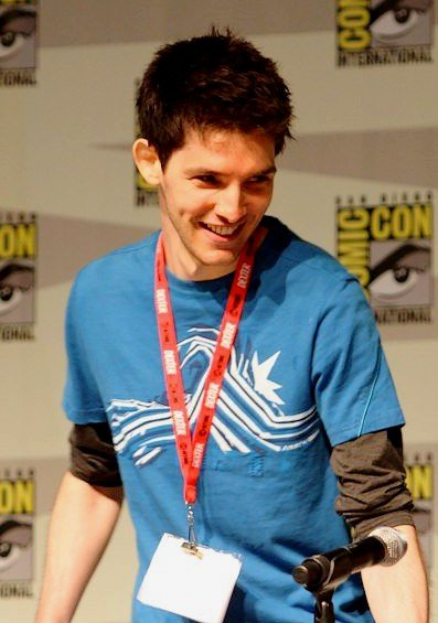 Colin Morgan at 2010 San Diego Comic-Con International.